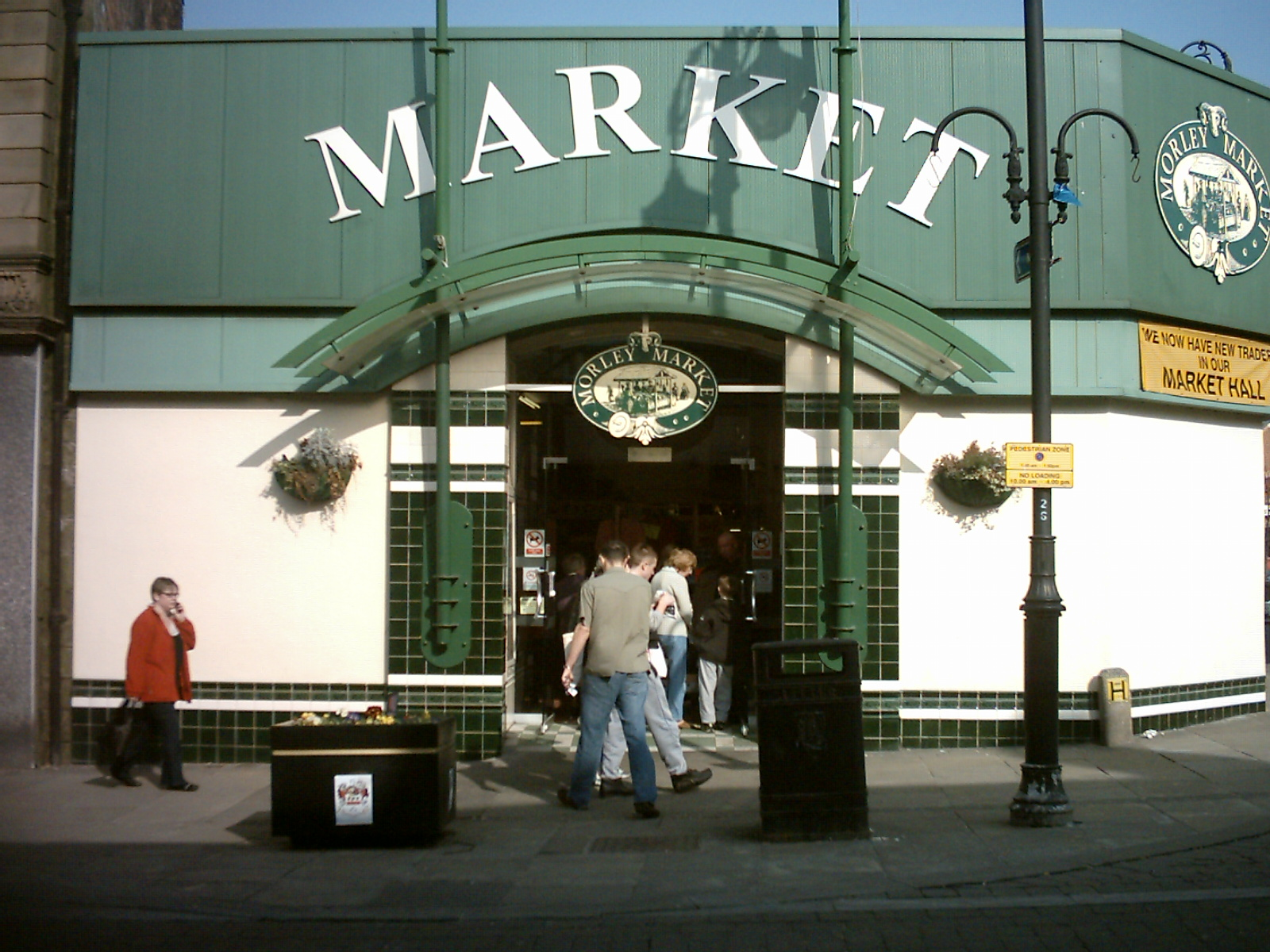 Morley Indoor Market, Queen Street, Morley, West Yorkshire